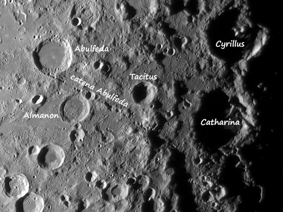 Image (reduction) of a lunar feature, taken with a C14 scope.